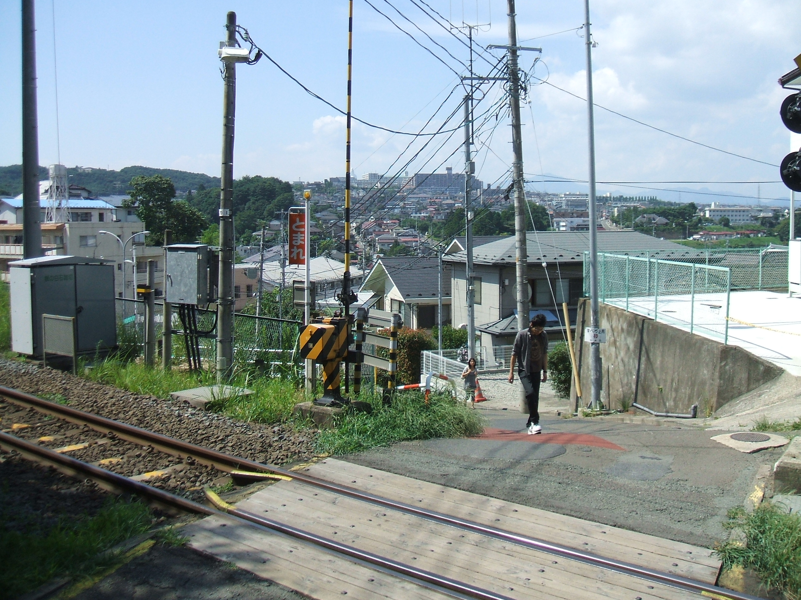 Level crossing on the JR East Senzan Line as seen from Kitayama Station